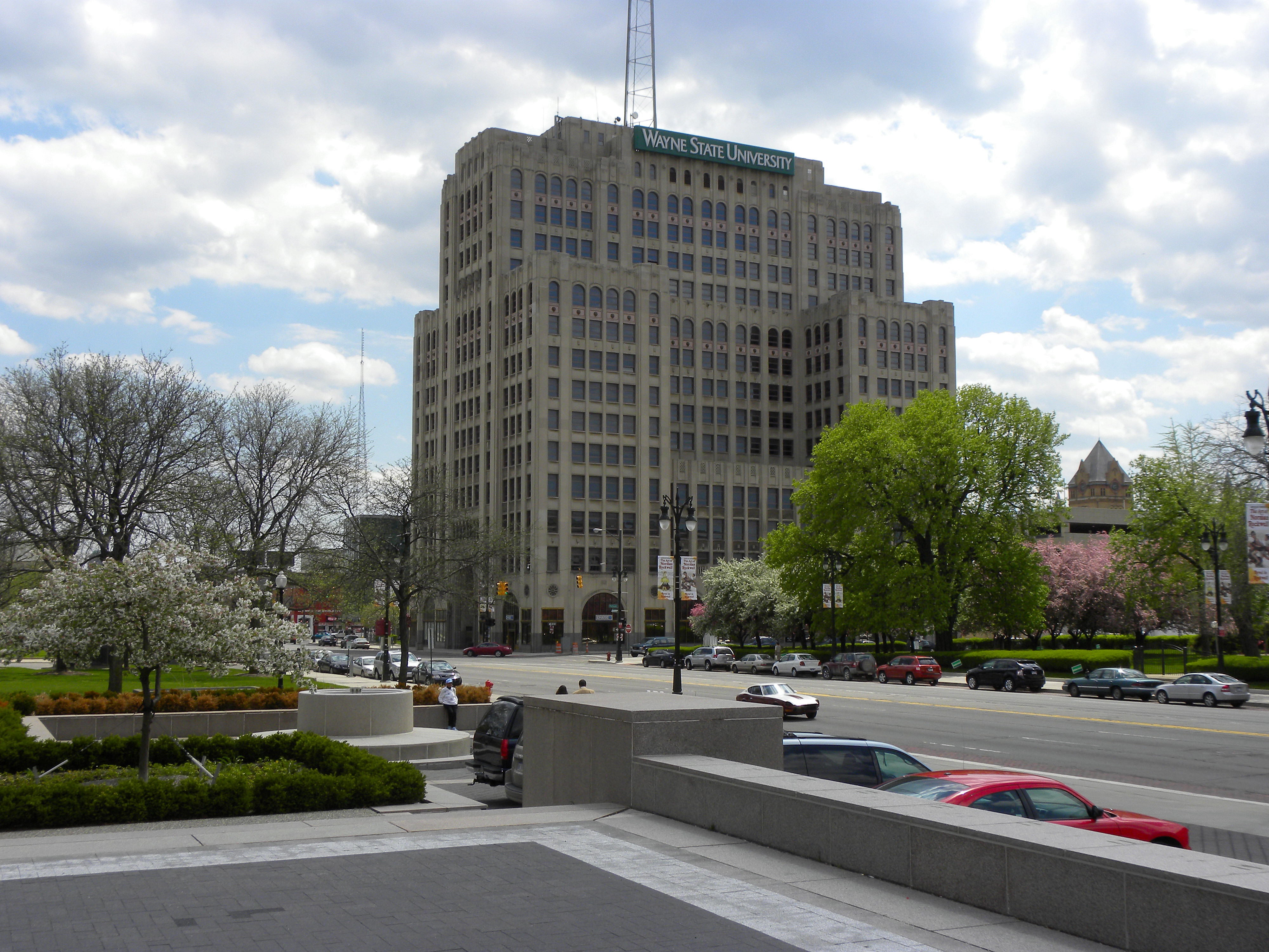 The Maccabees Building on the campus of Wayne State University, just south of the Detroit Historical Society, on Woodward Avenue, in the Arts Center neighborhood